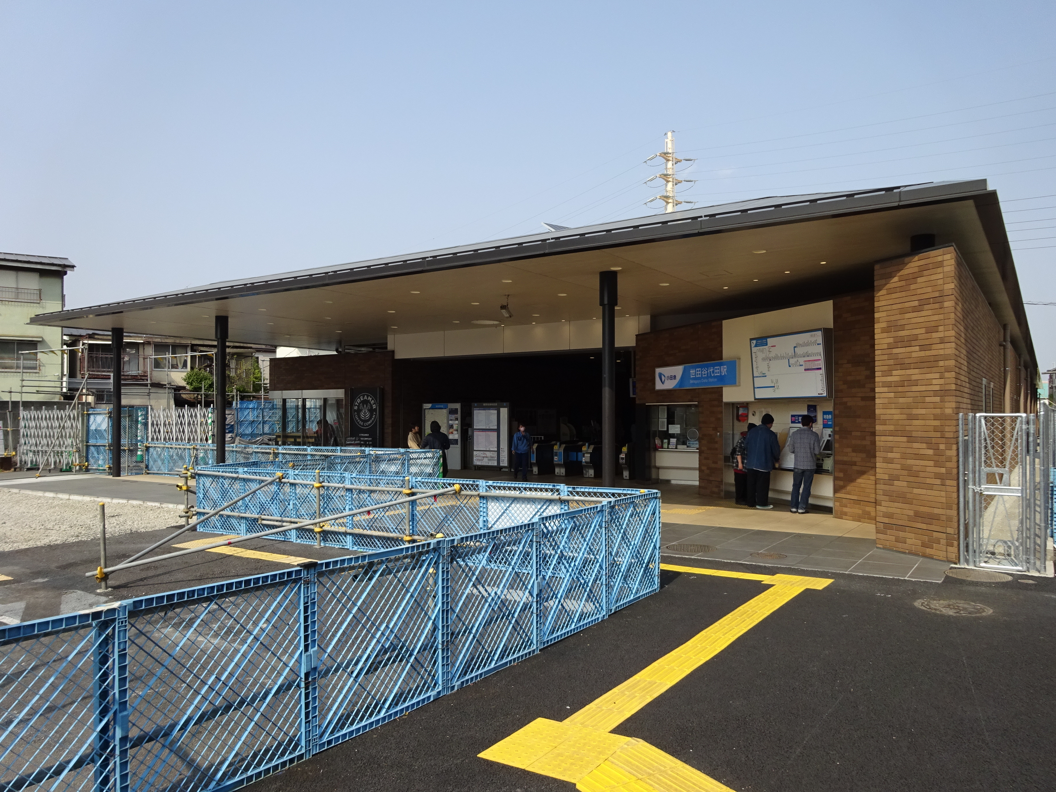 Setagaya-Daita Station